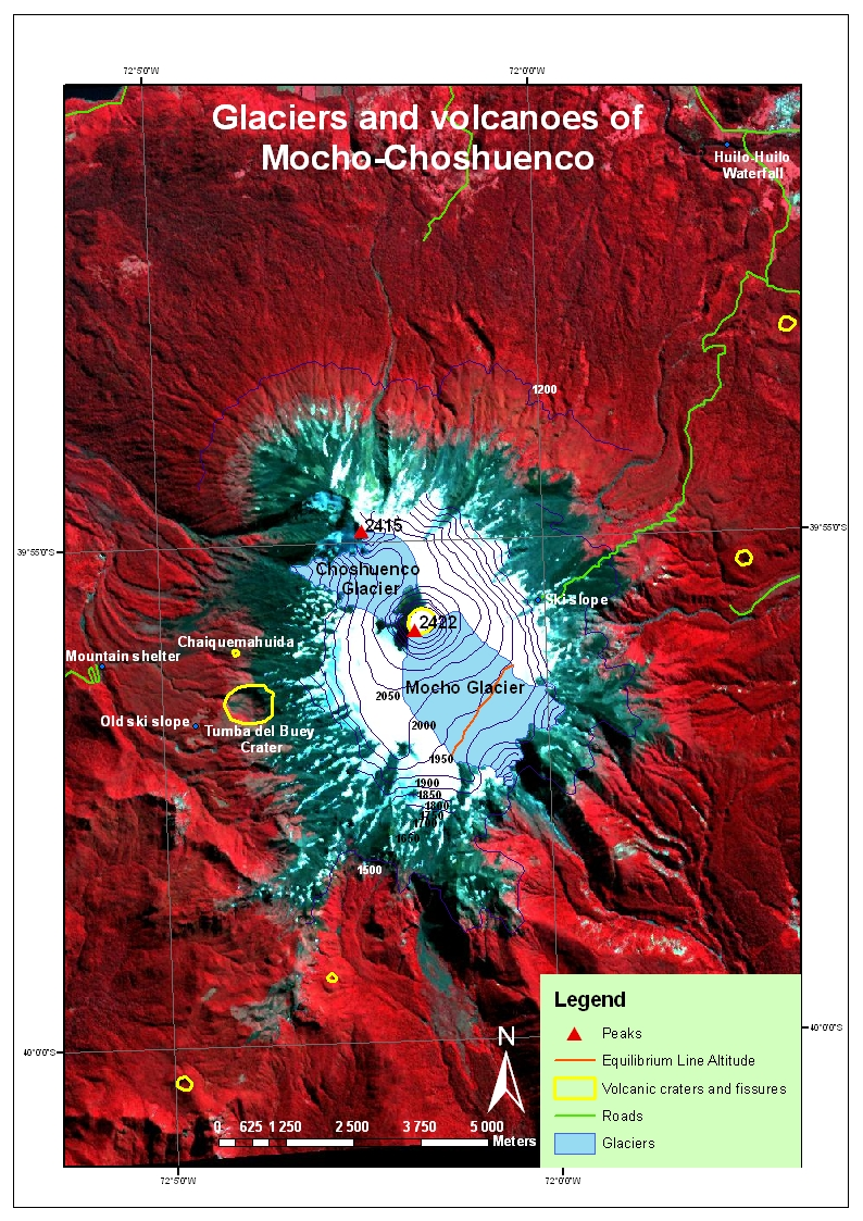 Map of Mocho-Choshuenco created from ASTER image, CECS map and other.